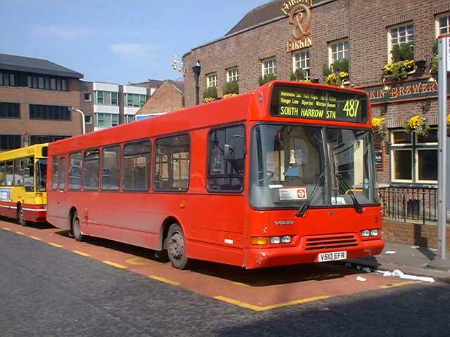 London Traveller 510 (V510 EFR), a Volvo B6BLE with East Lancs Spryte body, operating route 487 in August 1999. The pub is now (2019) called The Star.